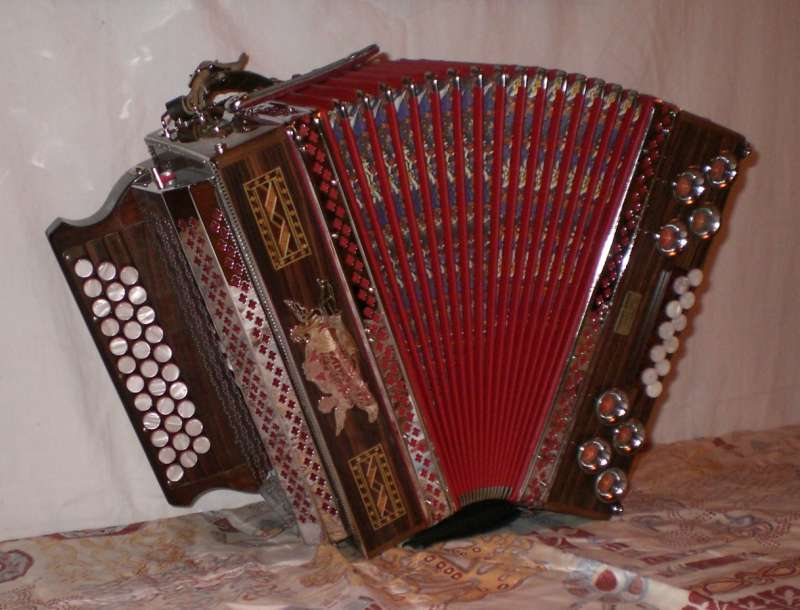 Here you can see another picture of an harmonica of the trademark "Alpenklang" manufactured by Johann Herbst from Unken, Salzburg.